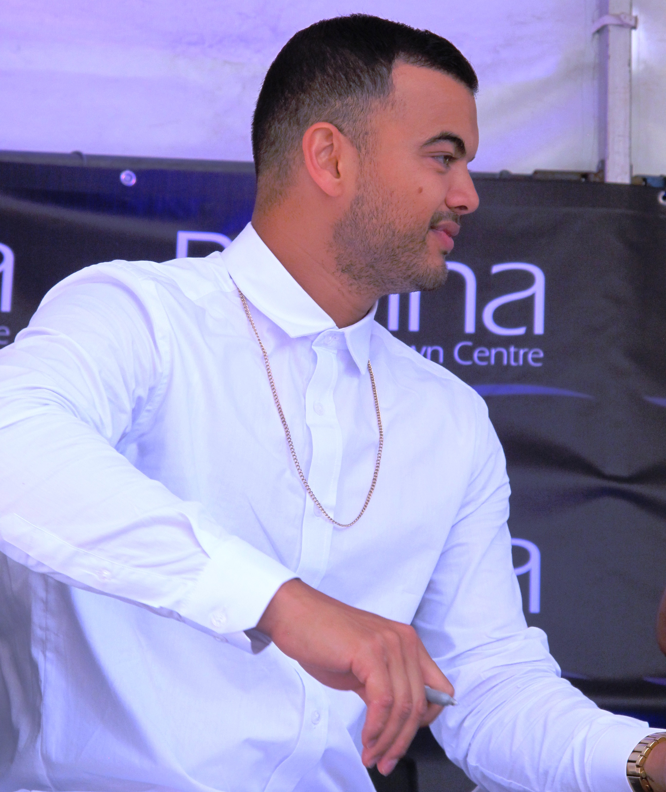 Huge turnout for Madness Album signing